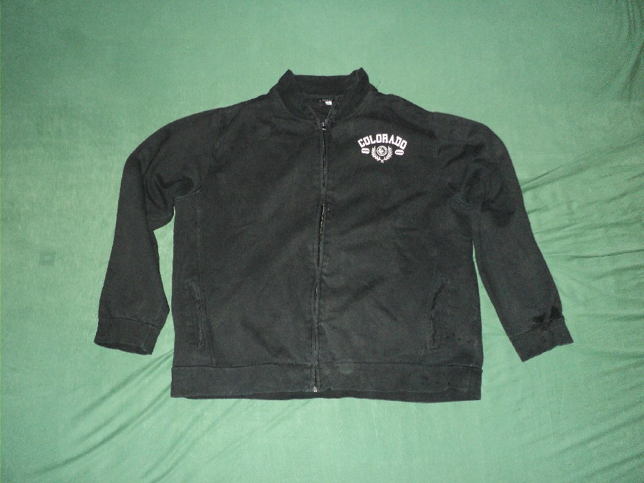 sweatjacket